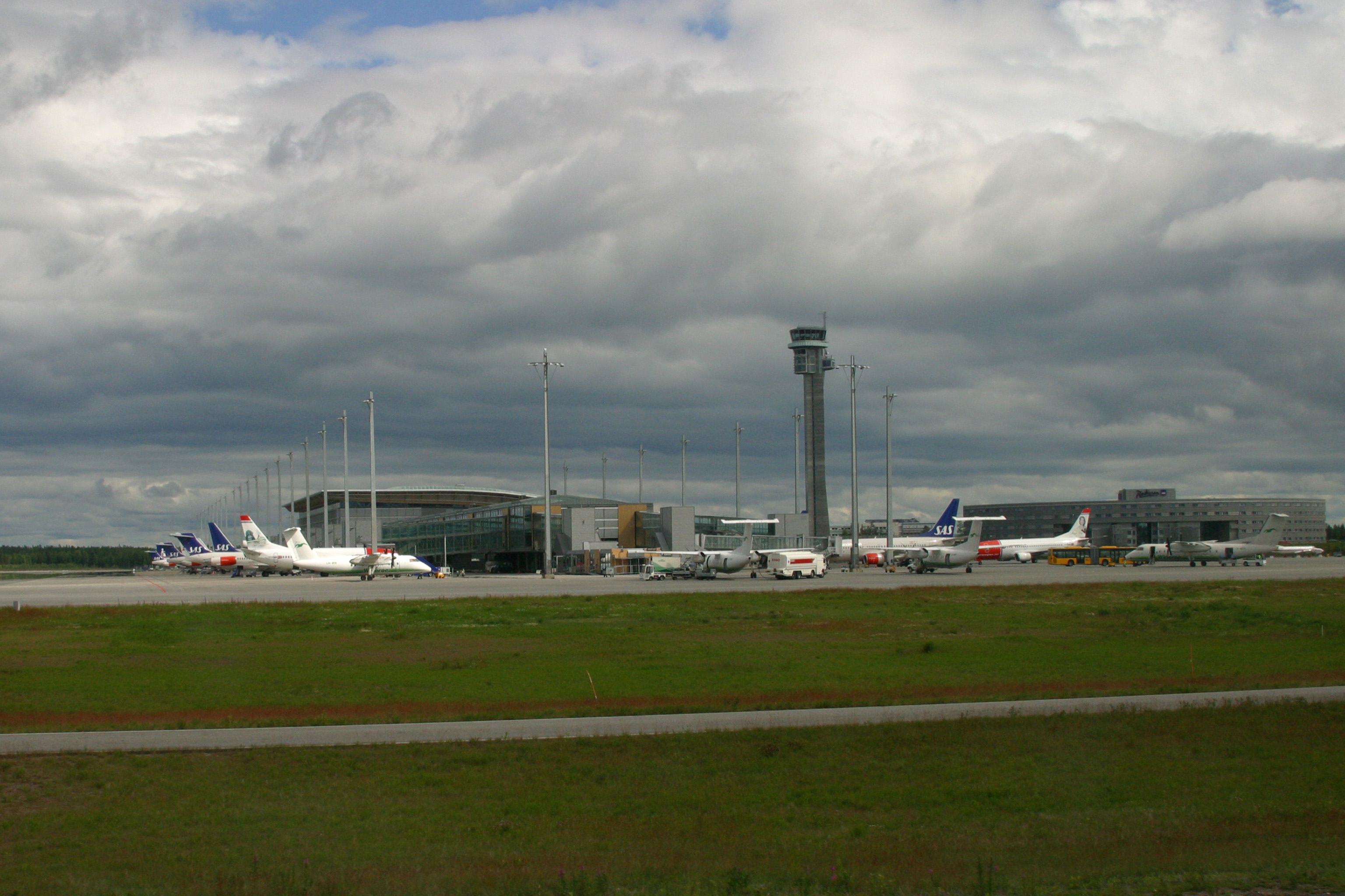 Picture of Oslo Airport (OSL)